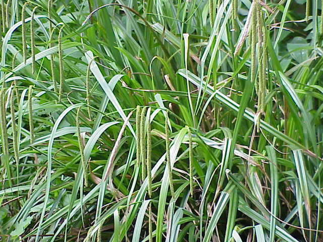 Species: Carex pendula Family: Cyperaceae Image No. 2